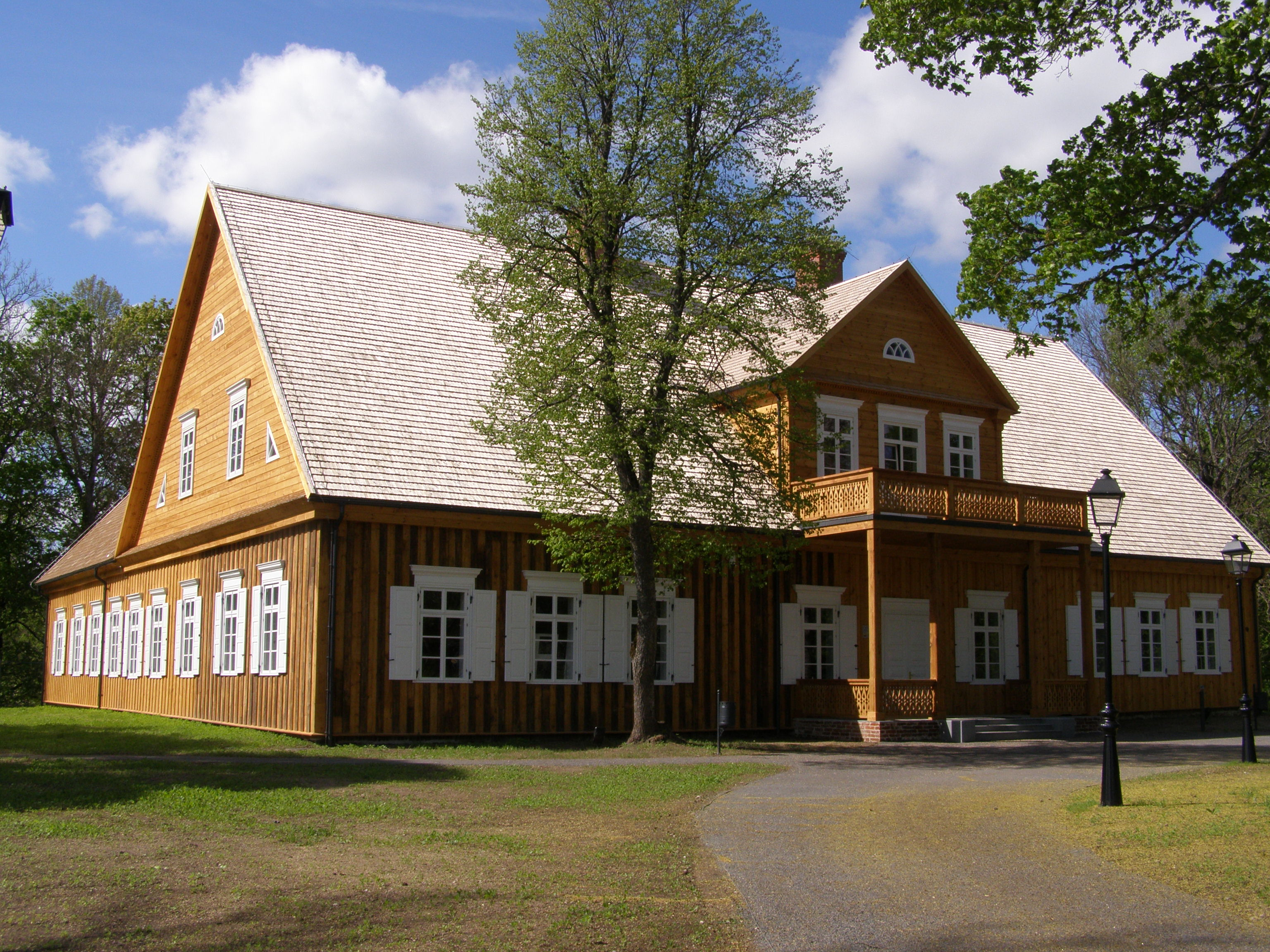 Biržuvėnai manor, Telšiai district, LithuaniaLietuvių: Biržuvėnų dvaro rūmai, Telšių rajonas, Lietuva